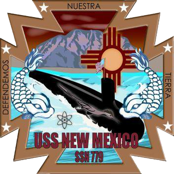 Emblem of the USS New Mexico SSN-779